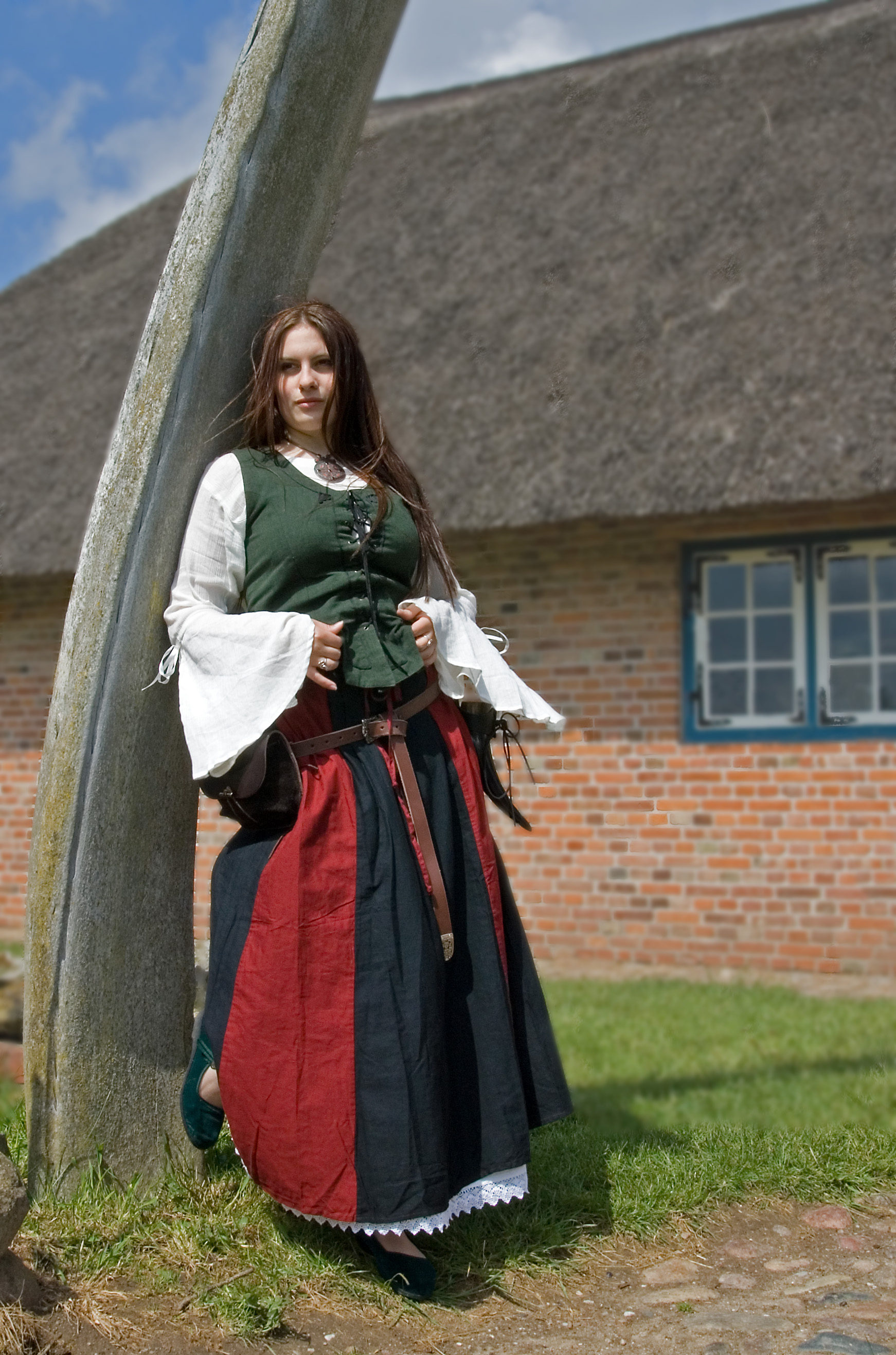 maybe she is asking herself whether her husband - a whale catcher - will come home soon? --- thank you to my girlfriend for being such a patient model!